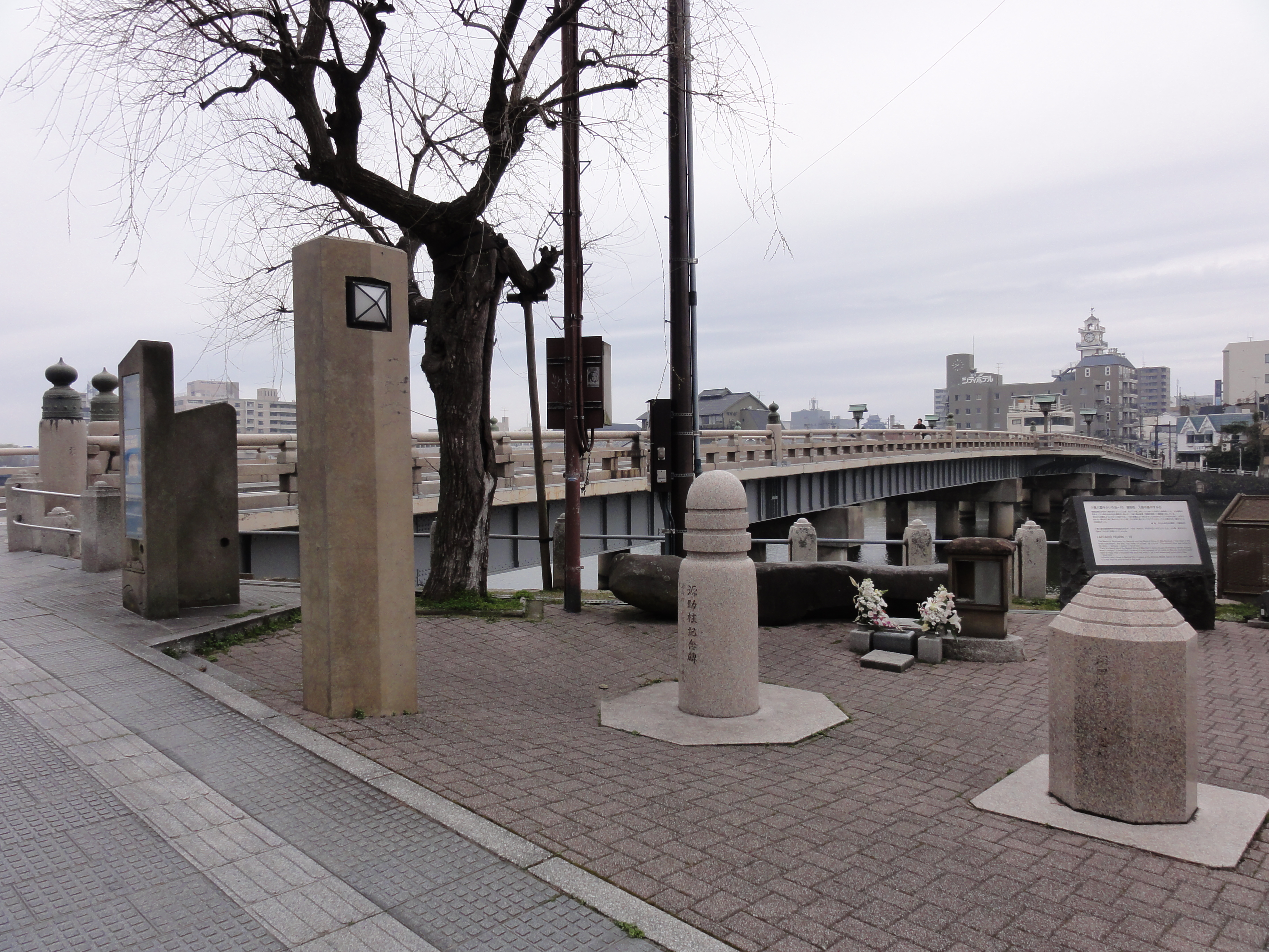 Matsue-ohashi bridge,Shimane Pref., Japan